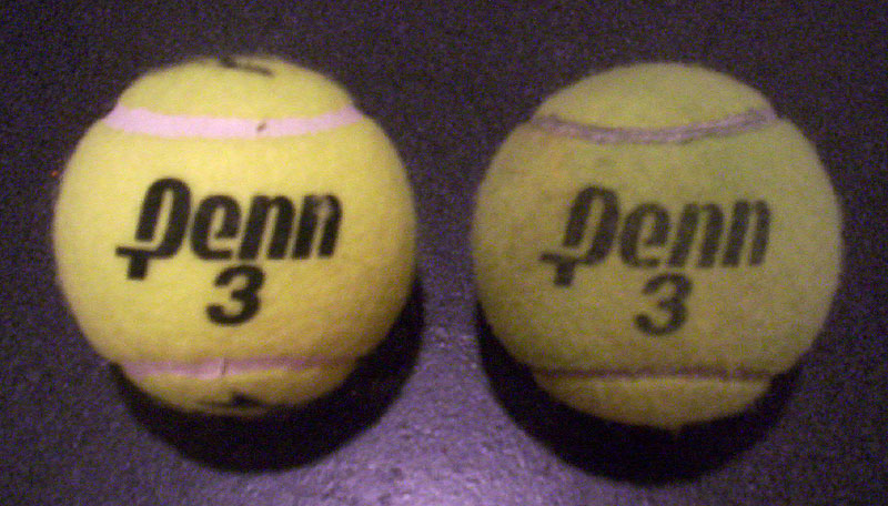 Two Penn tennis balls. On the left, a ball that has never been used. On the right, a ball after several hours of play.